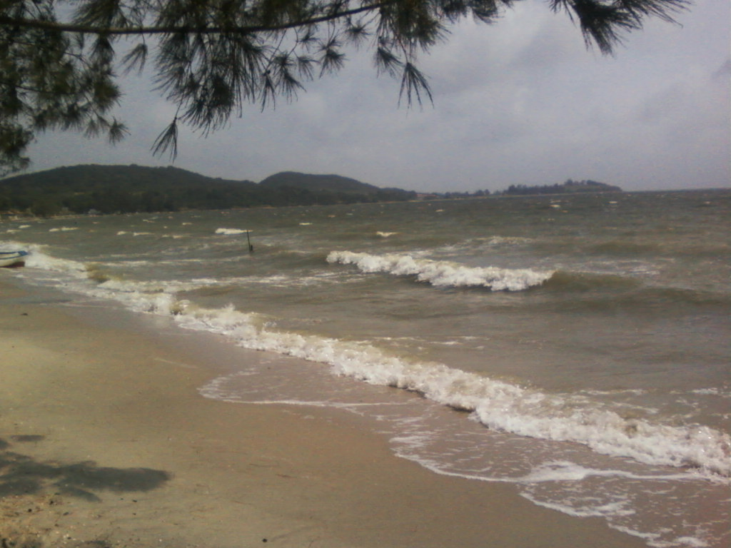 Araruama Lagoon, Southwest beach!!! São Pedro da Aldeia/RJ, Brazil